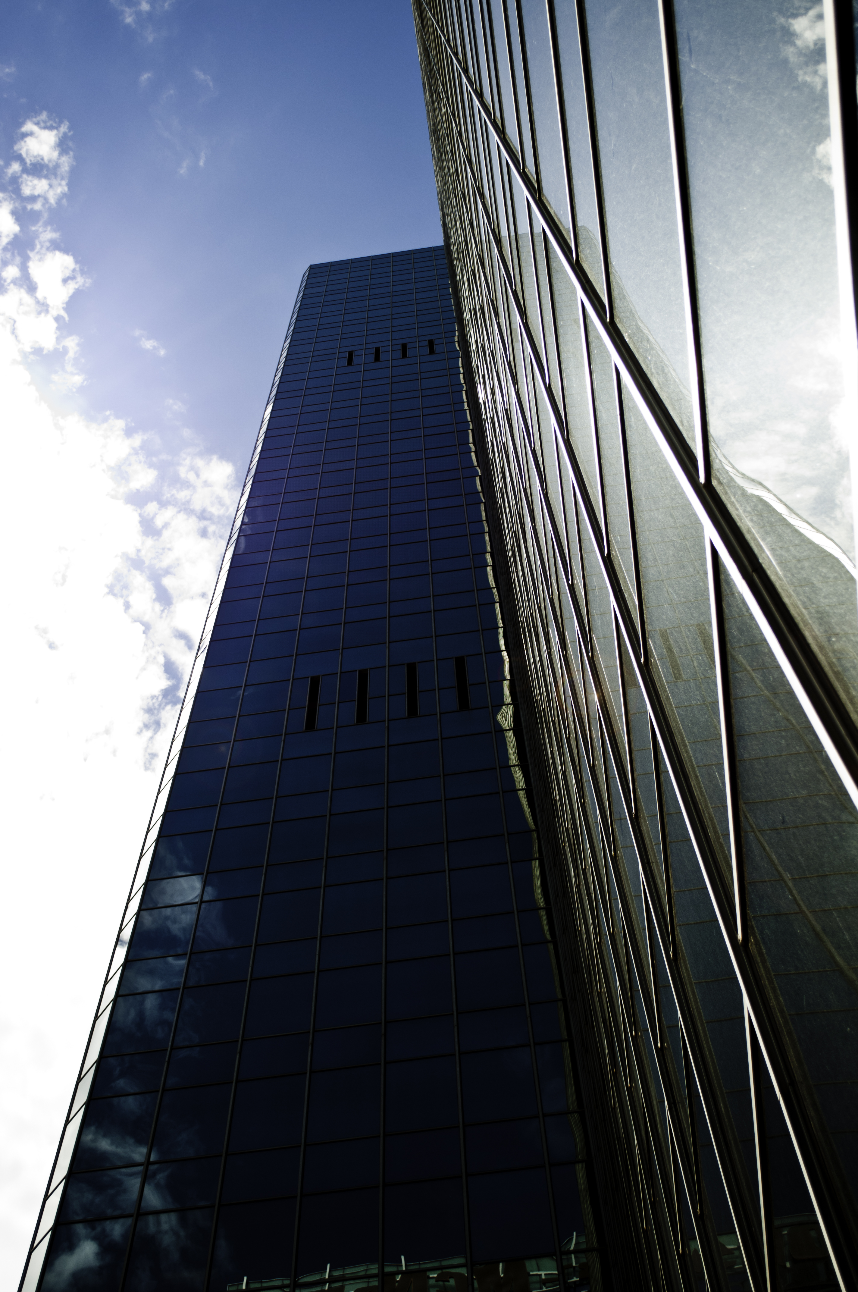 Chase Tower Vertical View, Copper Square, Phoenix, Arizona